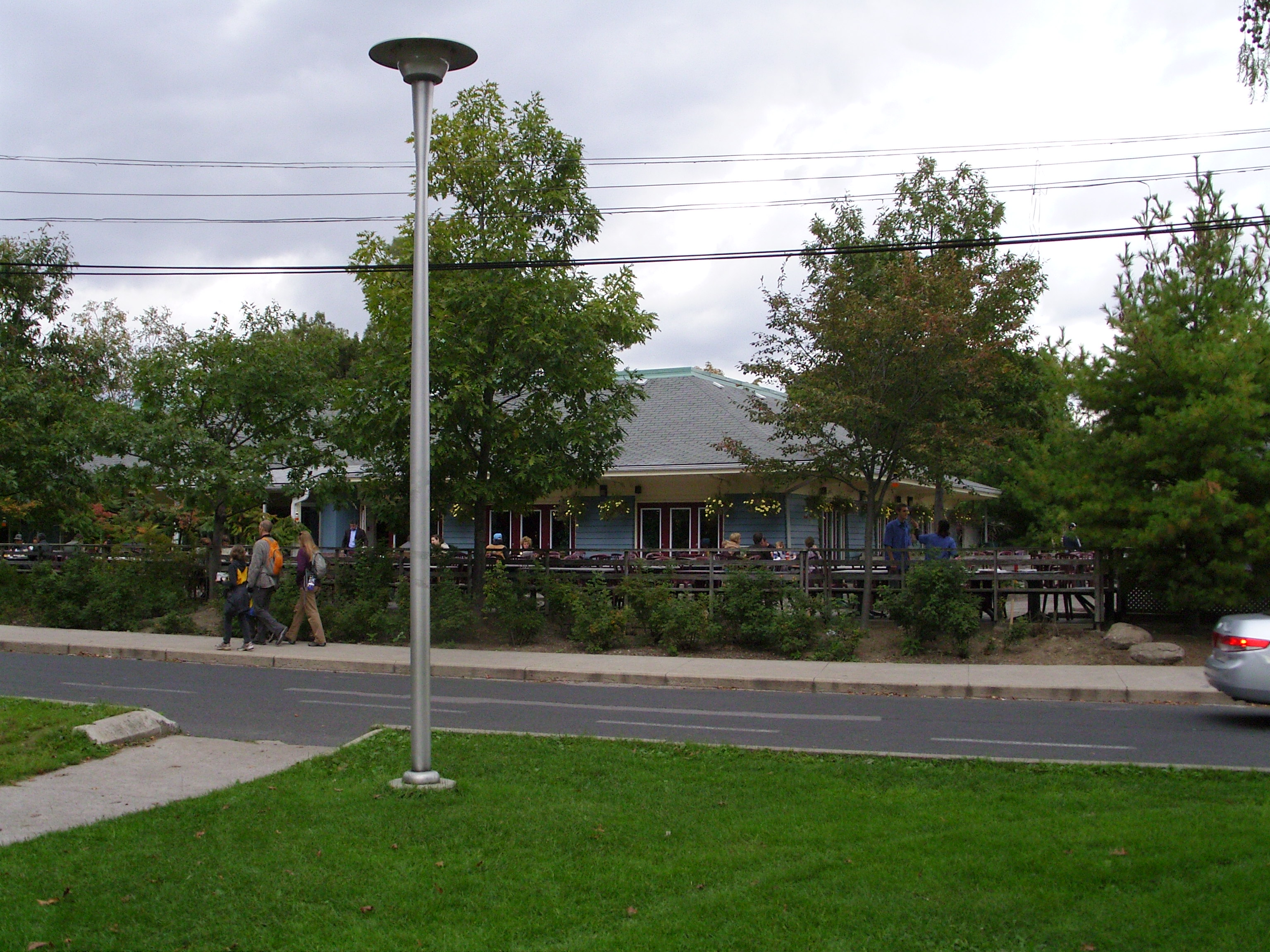 Photograph of Grenadier Cafe, High Park, Toronto